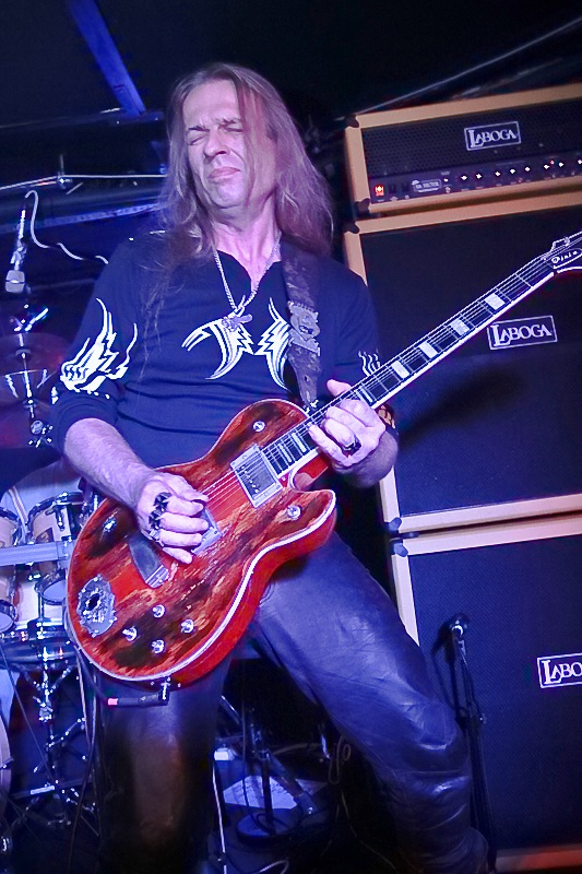 Andrzej Nowak with TSA band